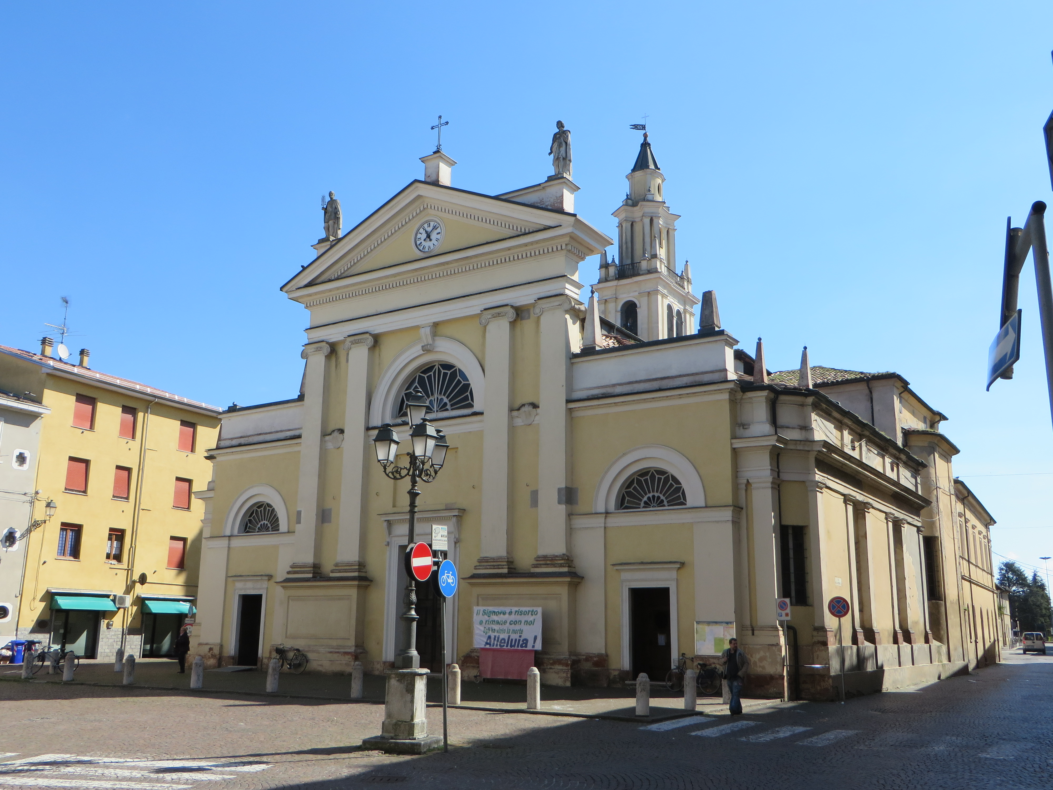 Church